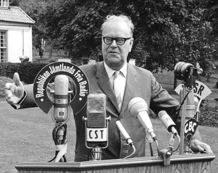 Tage Erlander speaks in the Republic of Jämtland's free radio from lawn